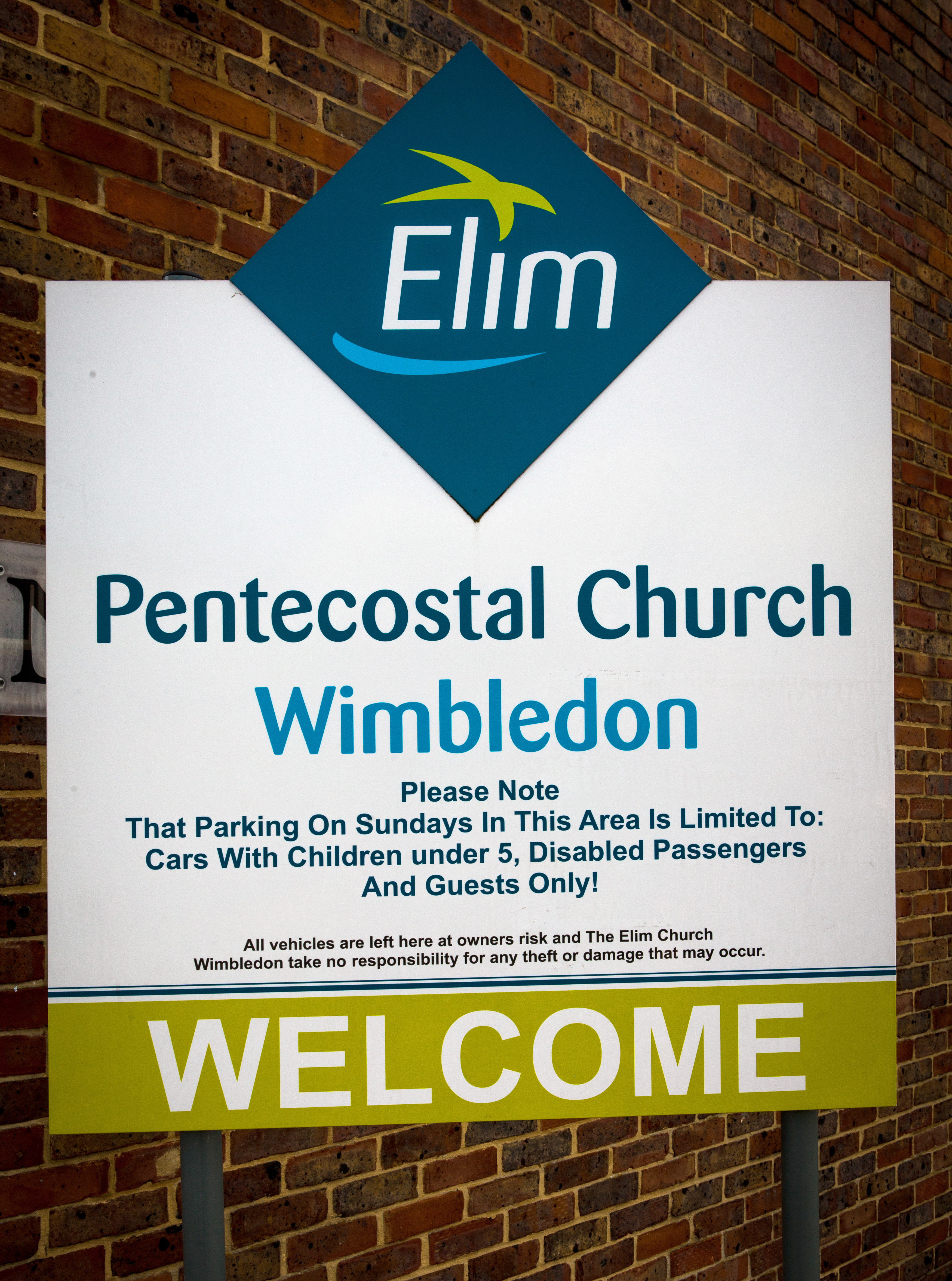 Sign outside the Elim Pentecostal Church, 59 High Path, Wimbledon, London SW19